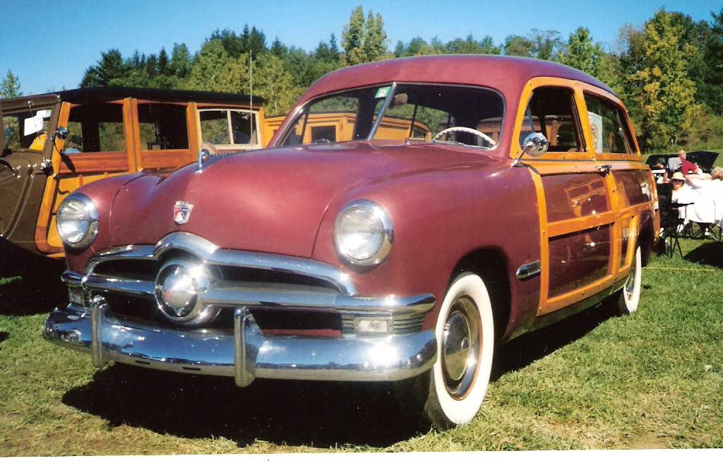 1950 Ford Country Squire station wagon I photographed in Bennington, Vermont in September 1999.